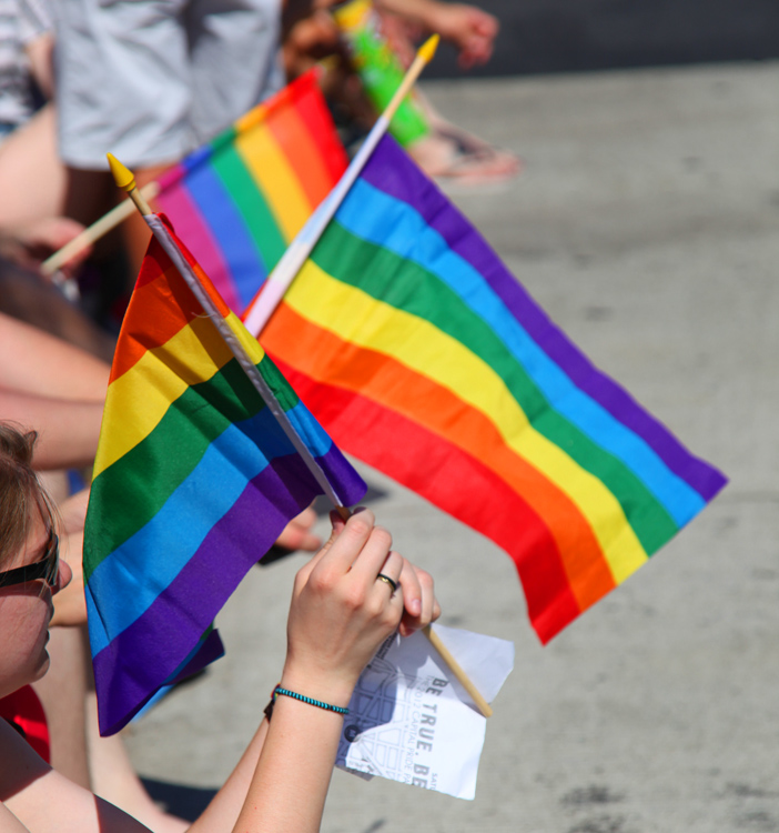 Happy celebrants wave rainbow flags! At the Capital Pride parade near Dupont Circle in Washington, D.C., in the United States on June 9, 2012.